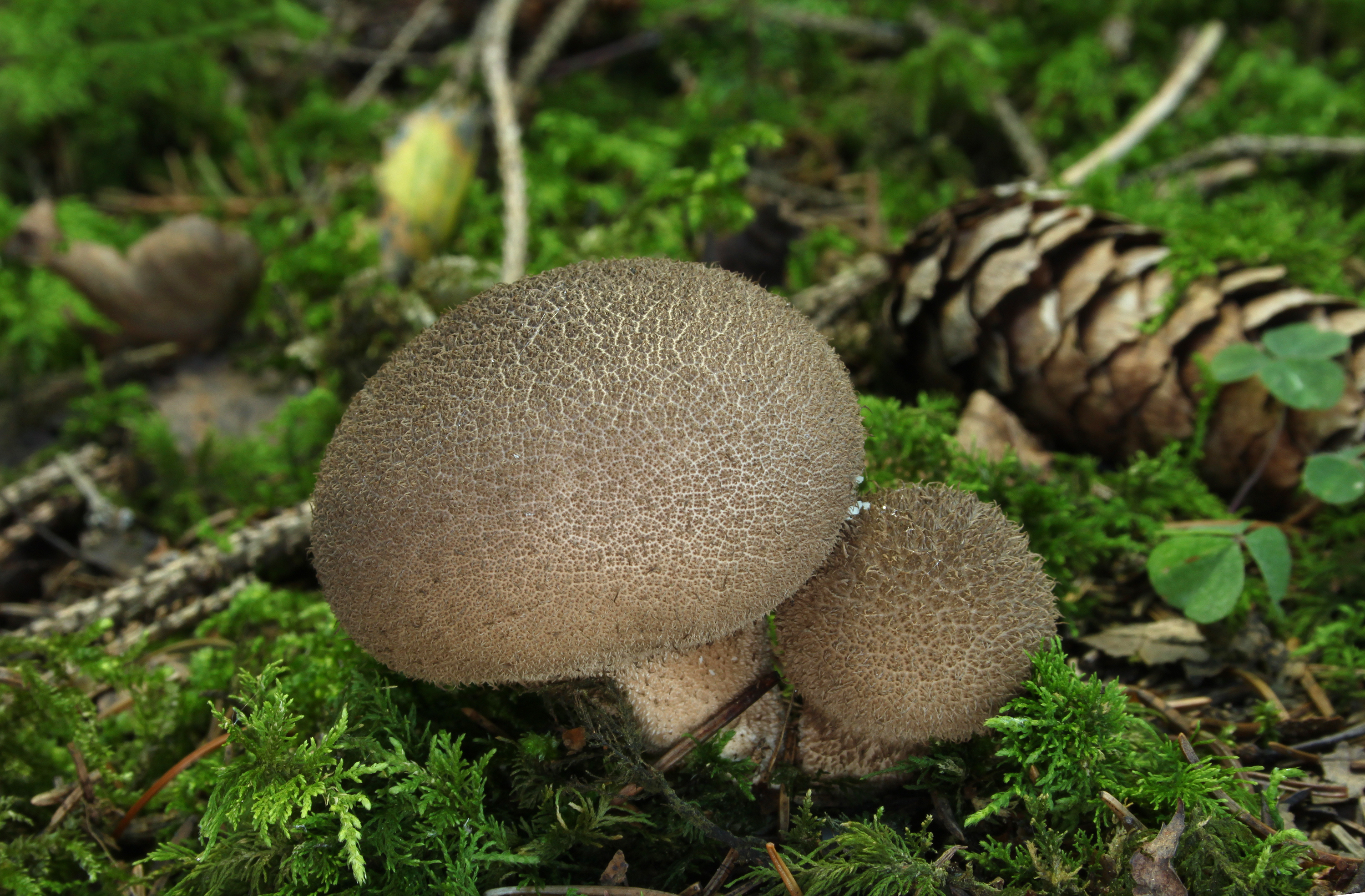 Umber-Brown Puffball Lycoperdon umbrinum, Family: Agaricaceae, Location: Germany, Ulm, Eggingen.